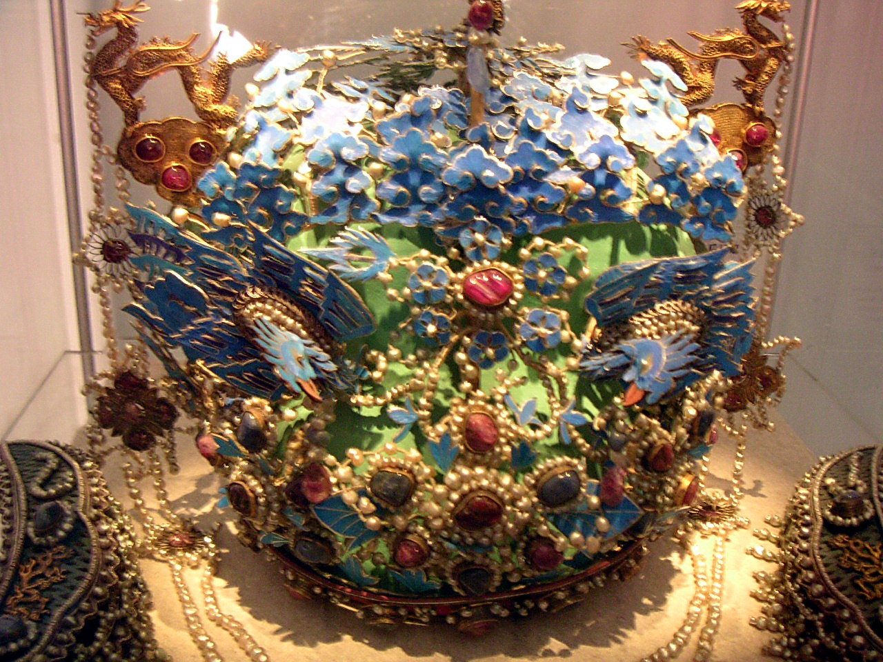 Art collection inside the Forbidden City in Beijing